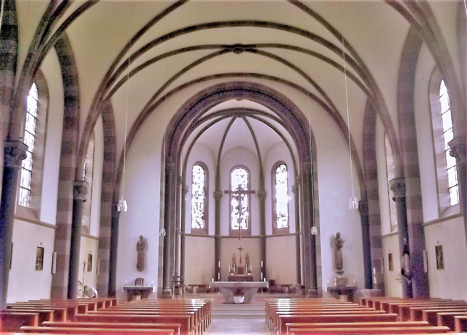 Interior of the roman catholic church in Großrosseln, Saarland, Germany